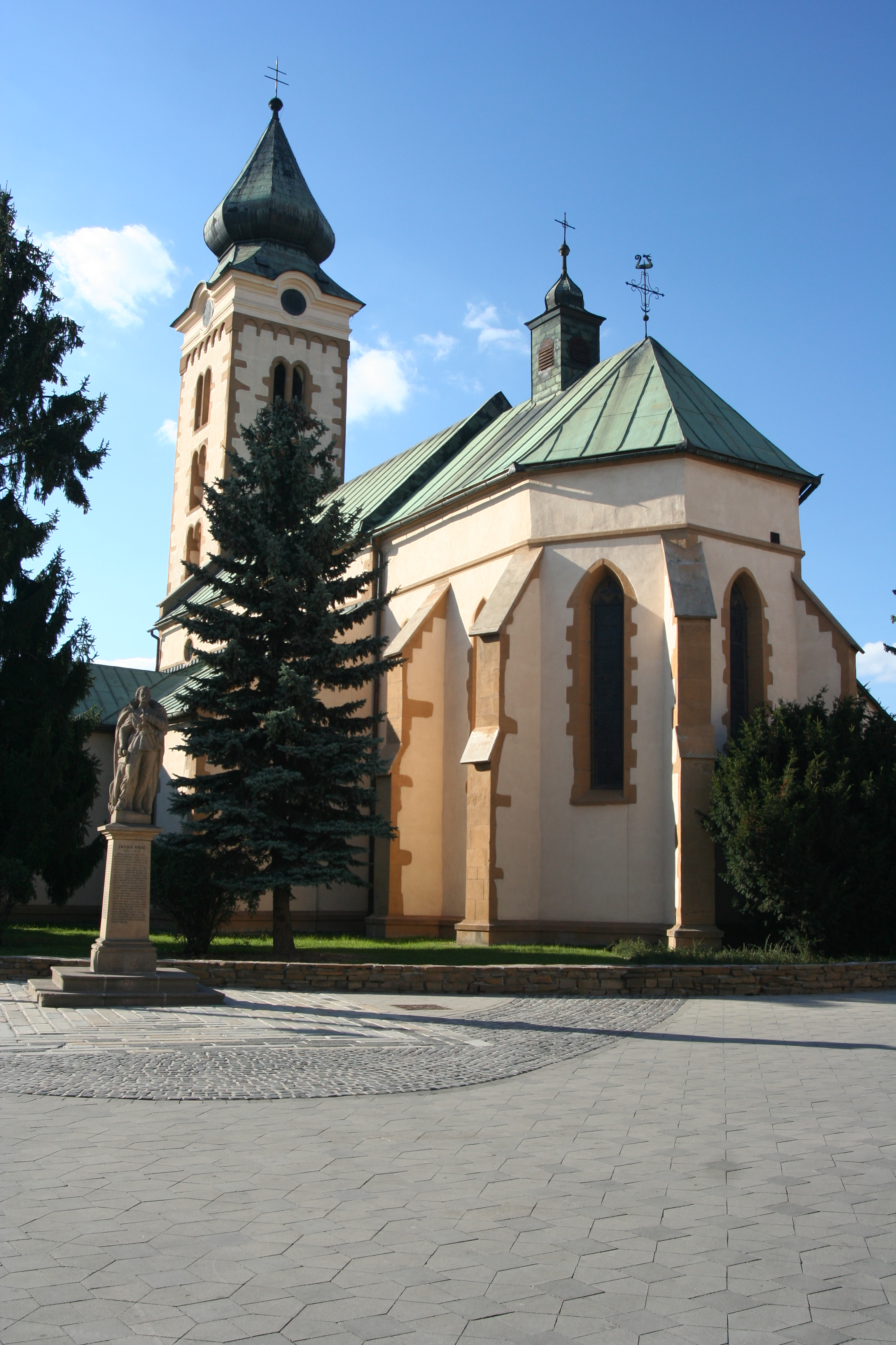 Saint Nicholas' Church (Kostol sv. Mikuláša) Liptovský Mikuláš, Slovakia. This medium shows the protected monument with the number 505-334/0 in the Slovak Republic.